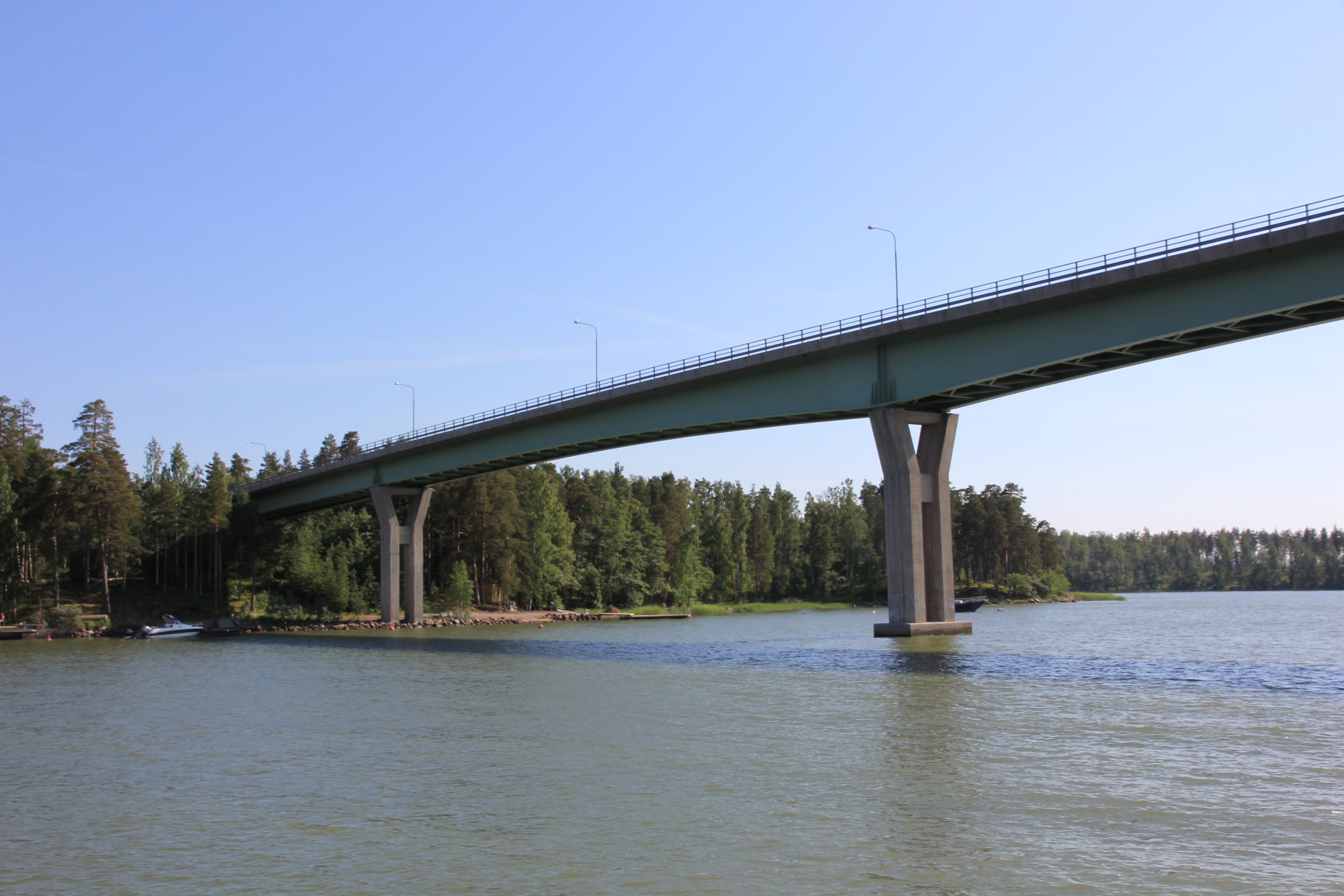 Southern half of Emäsalo bridge seen from east.